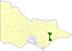 Location of the Shire of Alberton within Victoria.